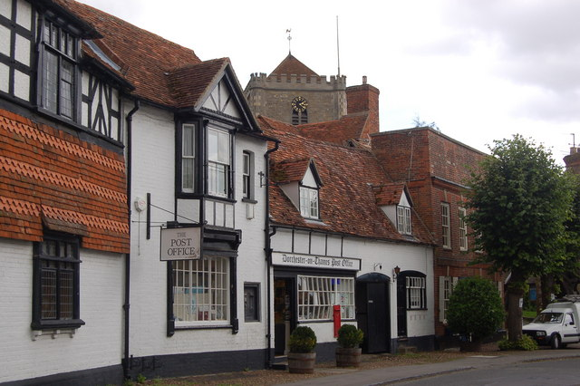 Dorchester Post Office